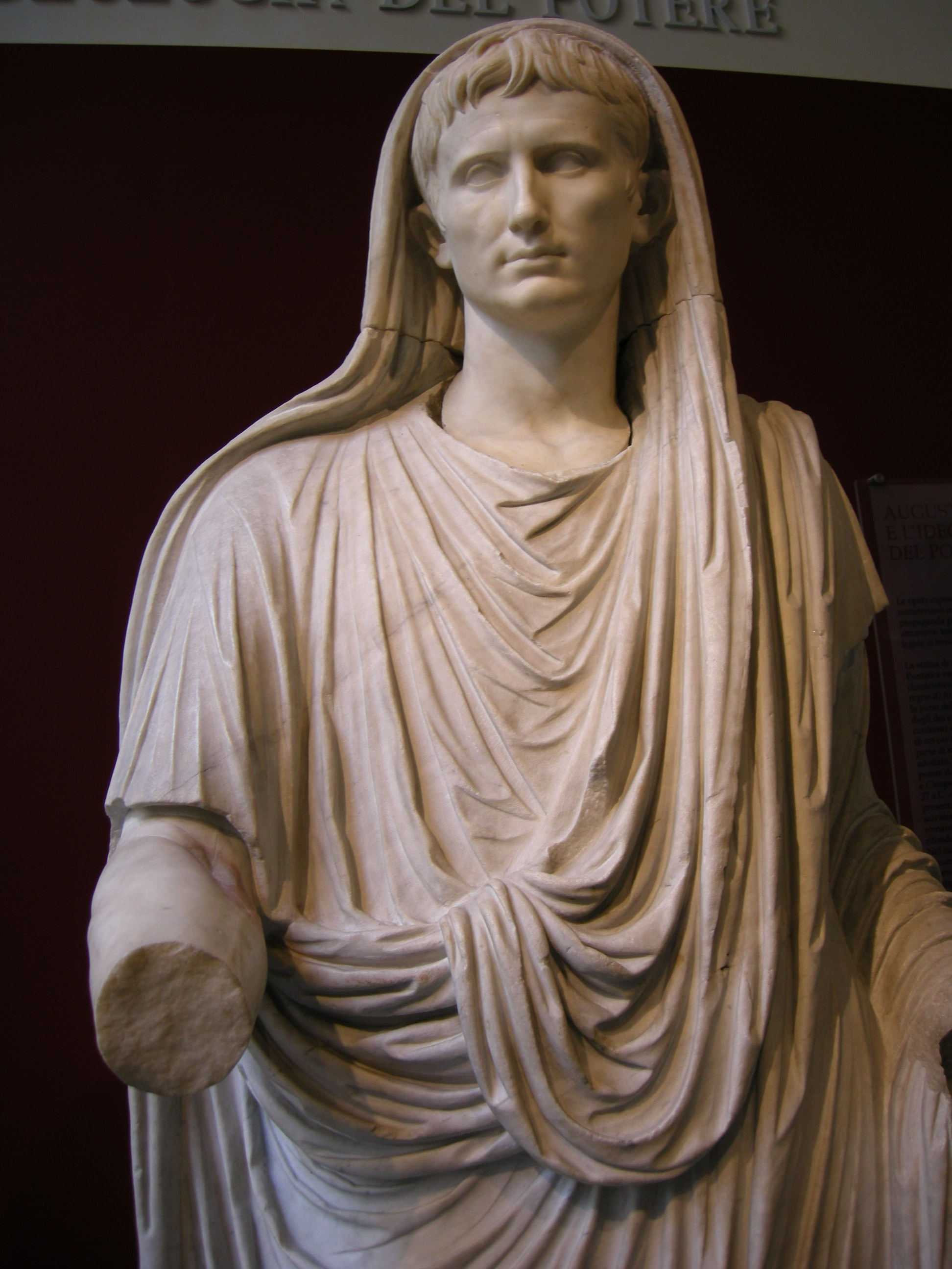 read filename pls